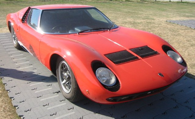 Photograph of the front of a rare RHD Lamborghini Miura S taken by SamH at the 2003 Goodwood Festival of Speed.